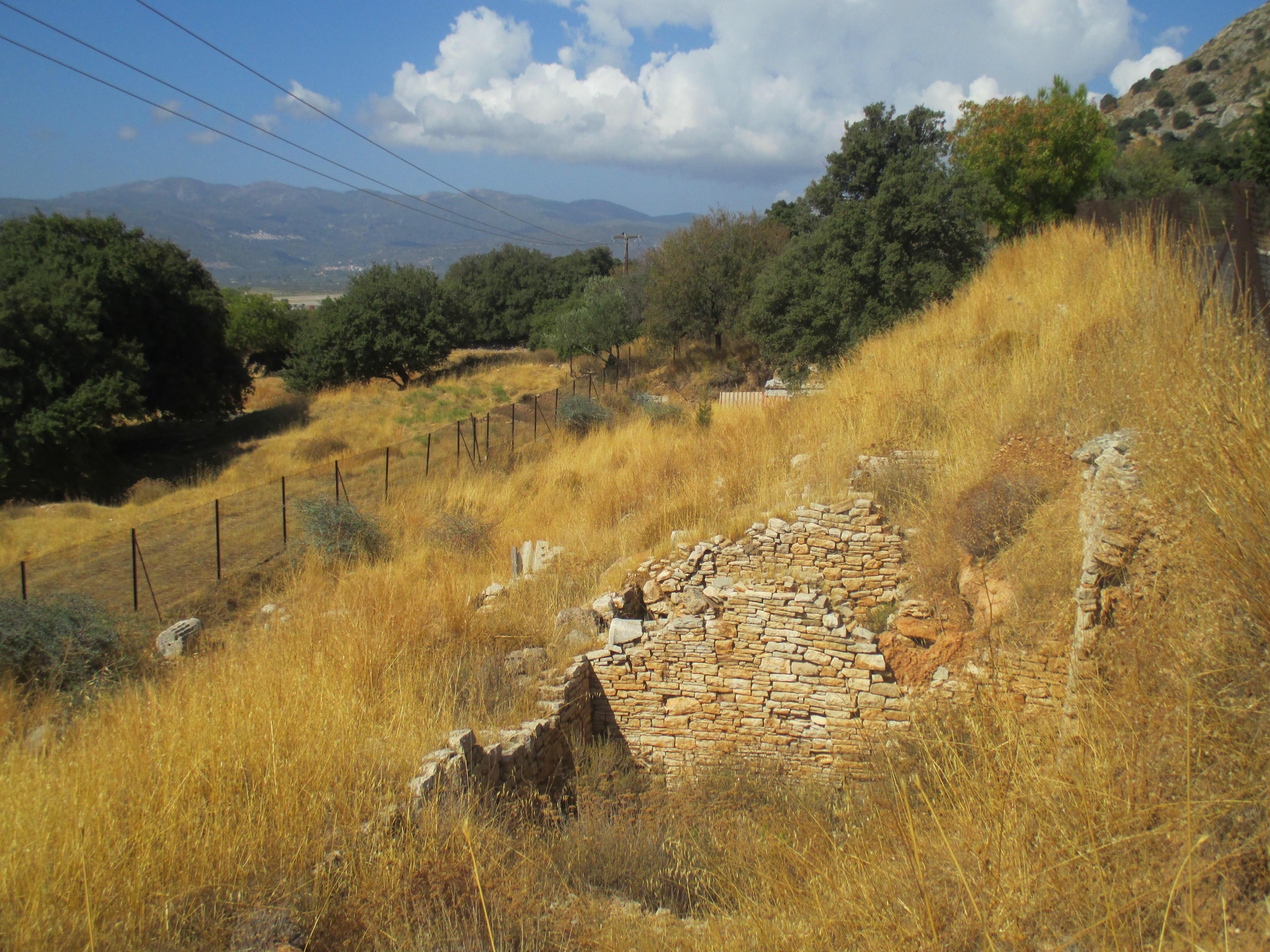 Ruins of a Hellenistic villa in Pythagoreio (ancient polis of Samos), Greece.